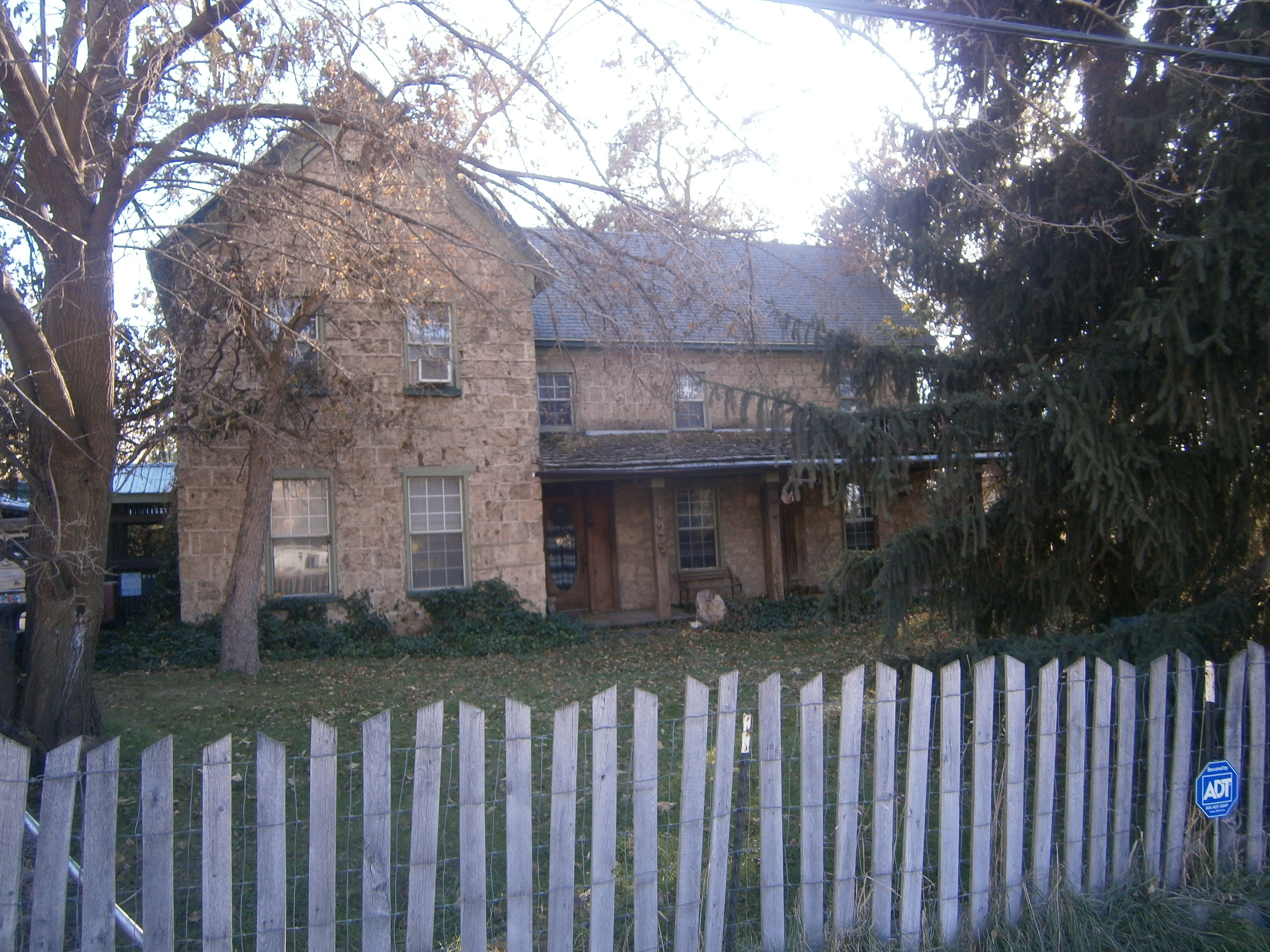 The Alfred William Harper House, a historic home in Lindon, Utah, United States.